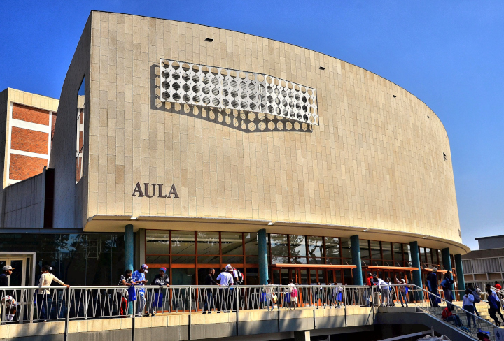 UP unveiled the Aula in 1958